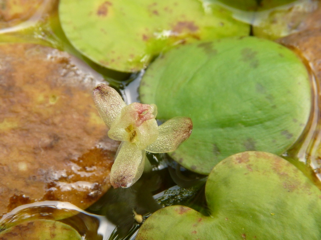 Limnobium laevigatum flower